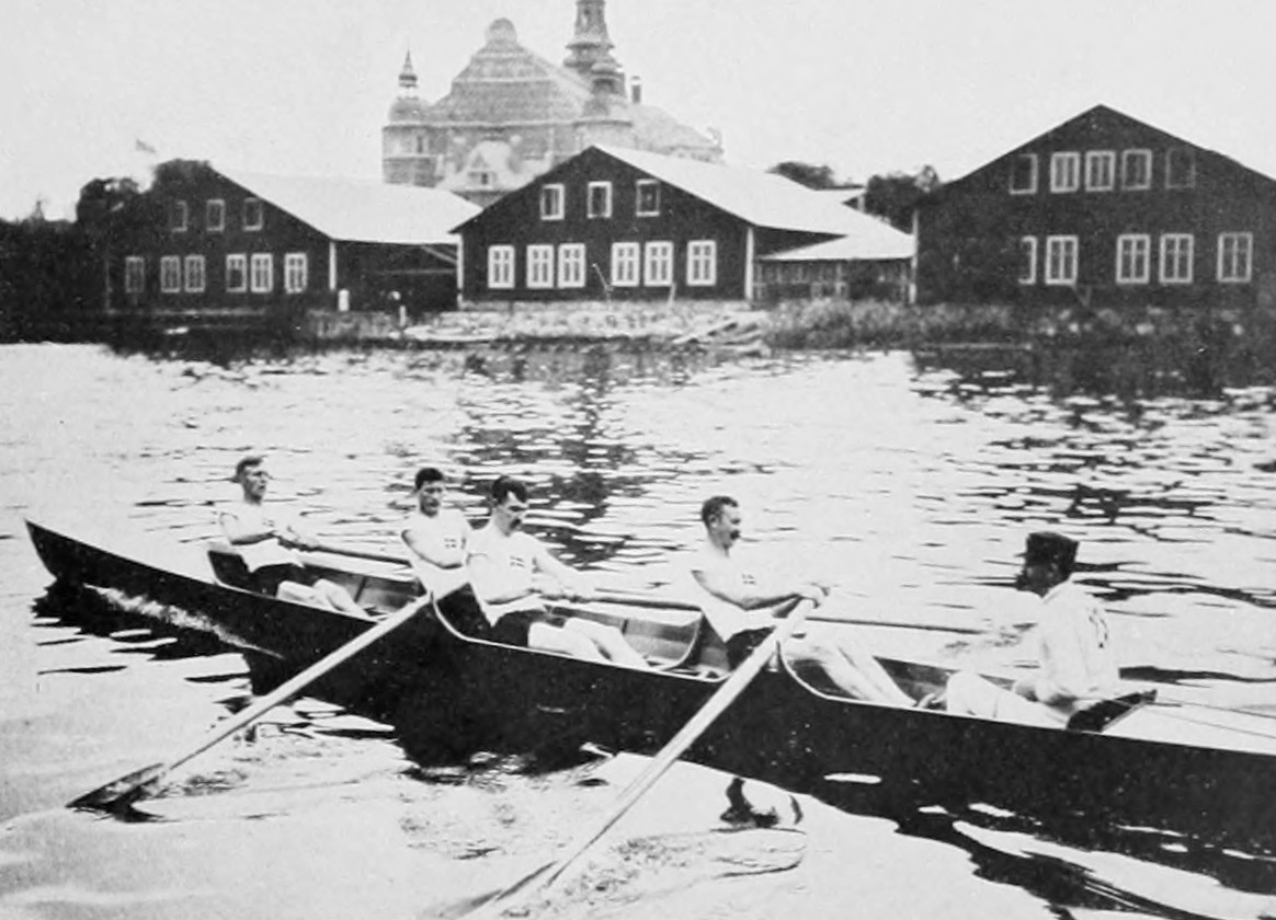 The Danish coxed fours inriggers Nykjøbings paa Falster Roklub at the 1912 Summer Olympics